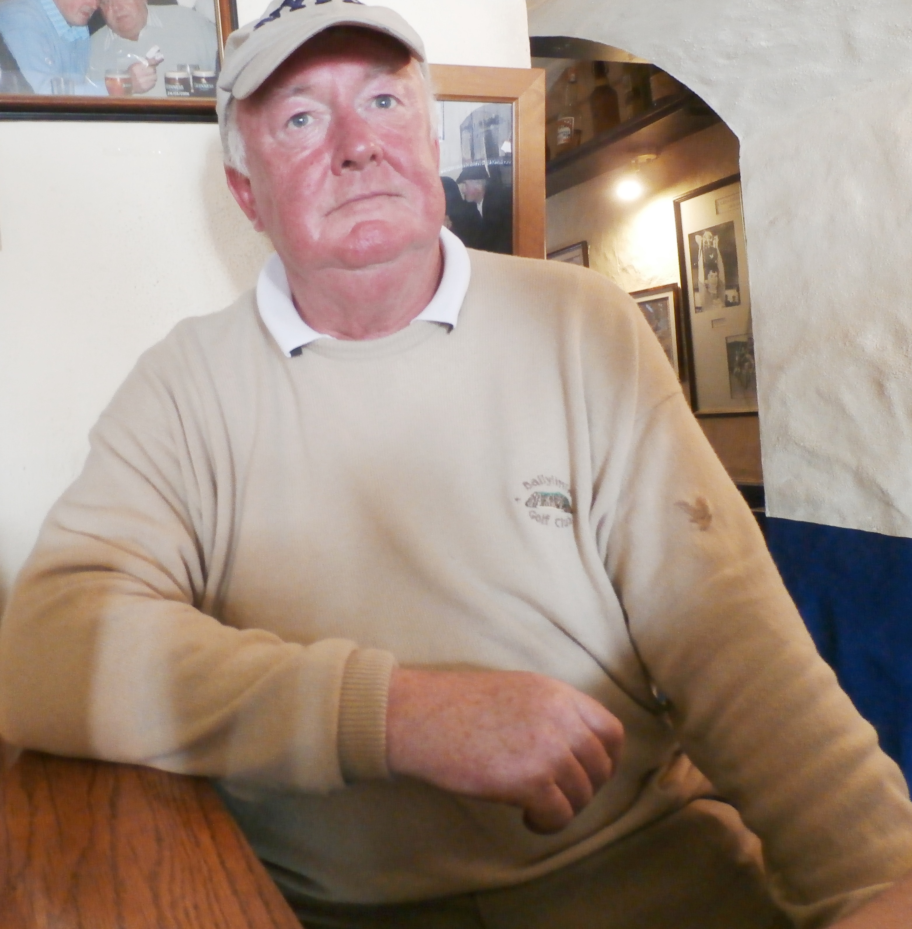 John O'Donoghue is a former Minister for Justice, Equality and Law Reform and a former Minister for Tourism and Sport. Picture taken in Villa Maria, Waterville, Co Kerry